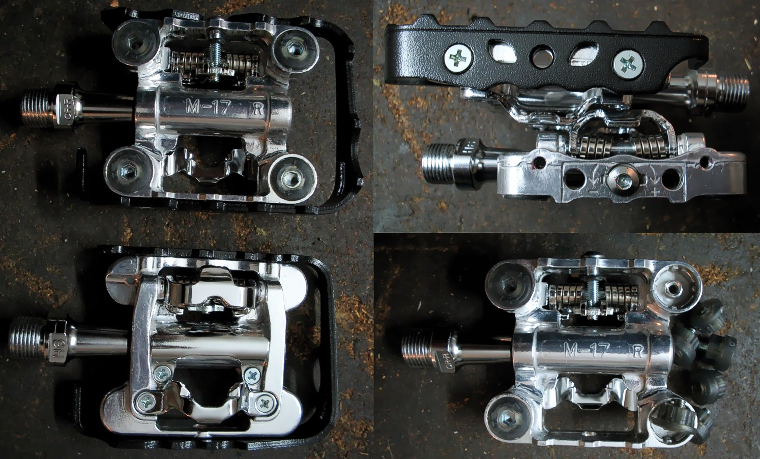 Tri-function pedal bike, with SPD Face and Face FLAT, which can be converted to normal by adjusting the 4 slide and possibly Support points removing Also the Frame With the spikes.